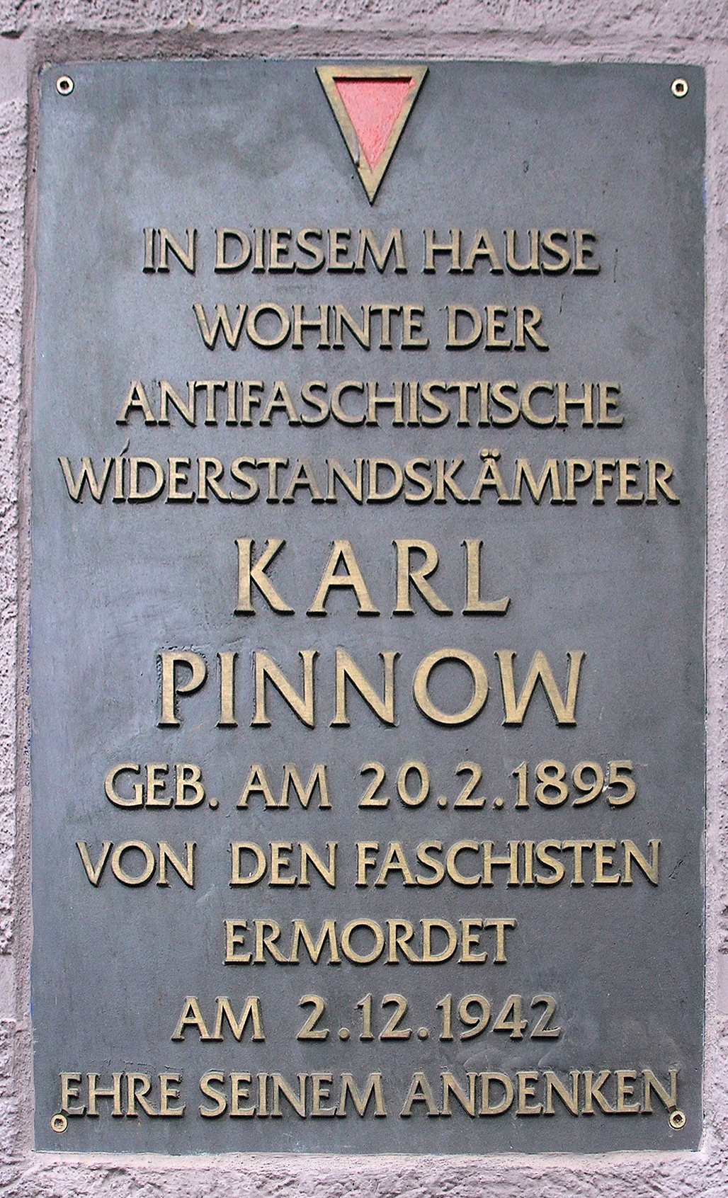 Memorial plaque, Karl Pinnow, Kopernikusstraße 19, Berlin-Friedrichshain, Germany Koordinate:52°30′37″N 13°27′19″E / 52.51028°N 13.45528°E